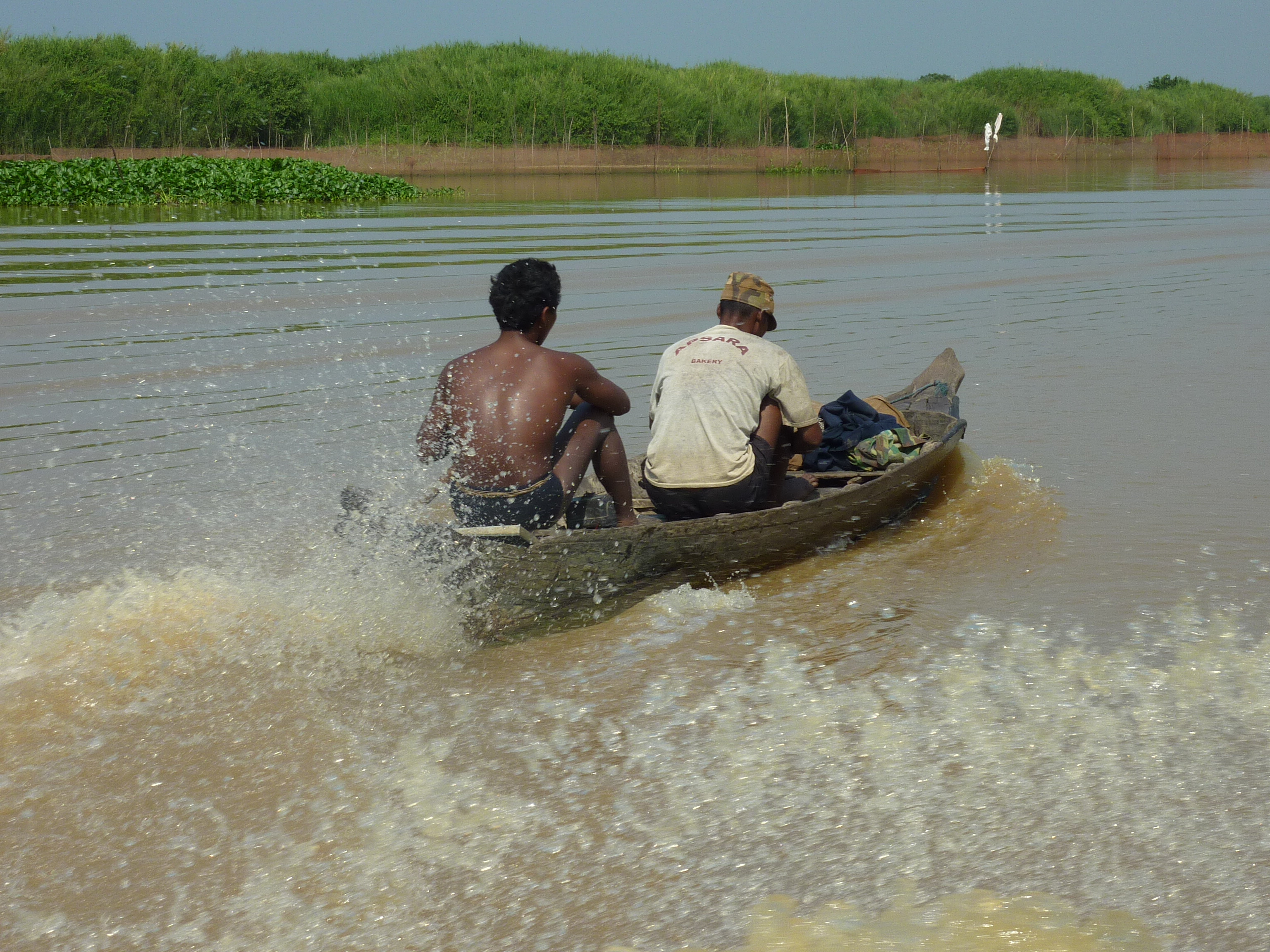 Tonle Sap: Motor Boat